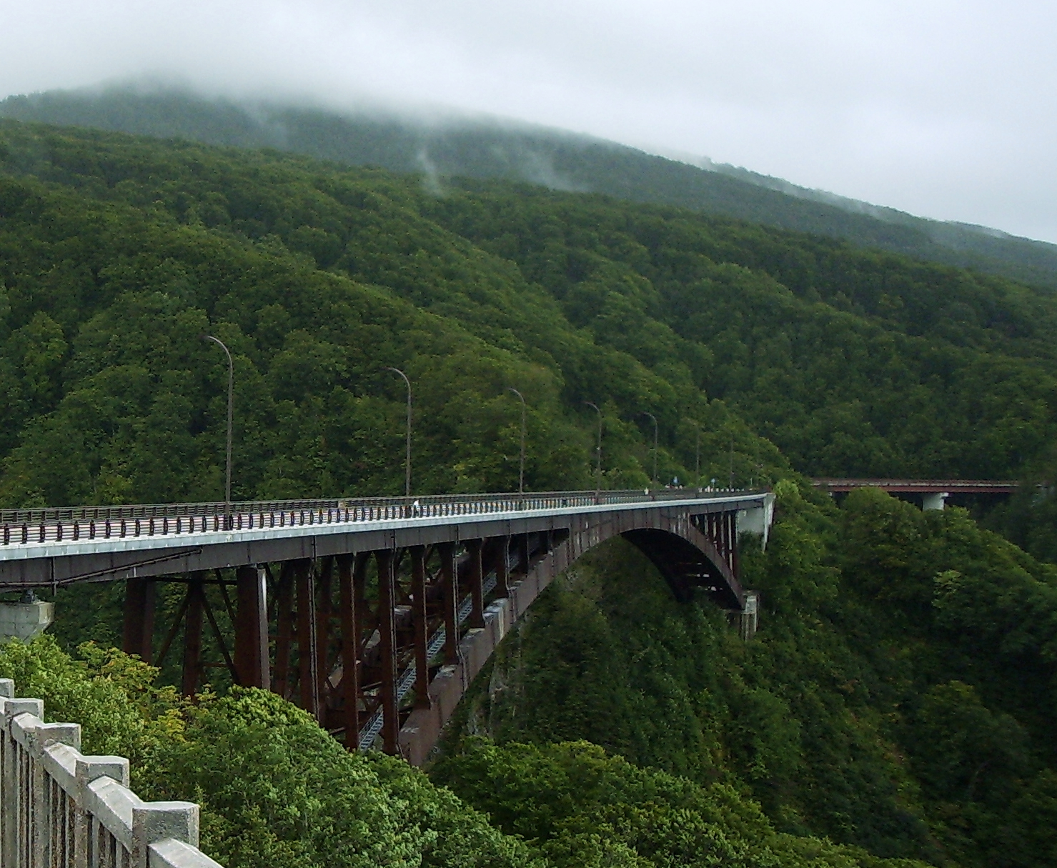 The Jogakura Bridge in Aomori, Japan